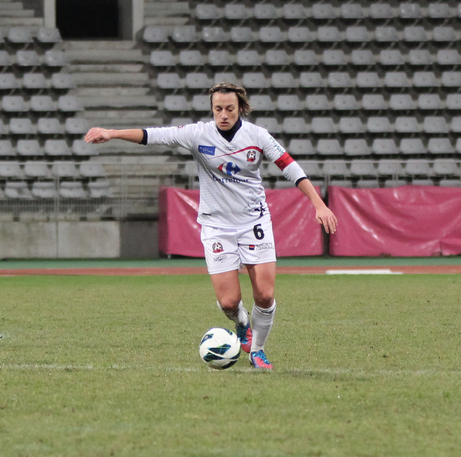 PSG-Juvisy, december 9th, 2012.